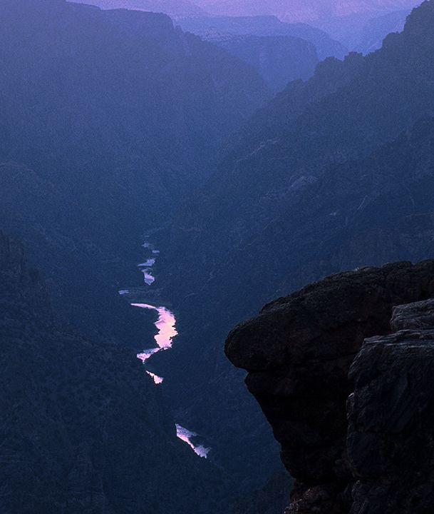 The Gunnison River at twilight, from Sunset View, Black Canyon of the Gunnison National Park, Colorado, USA